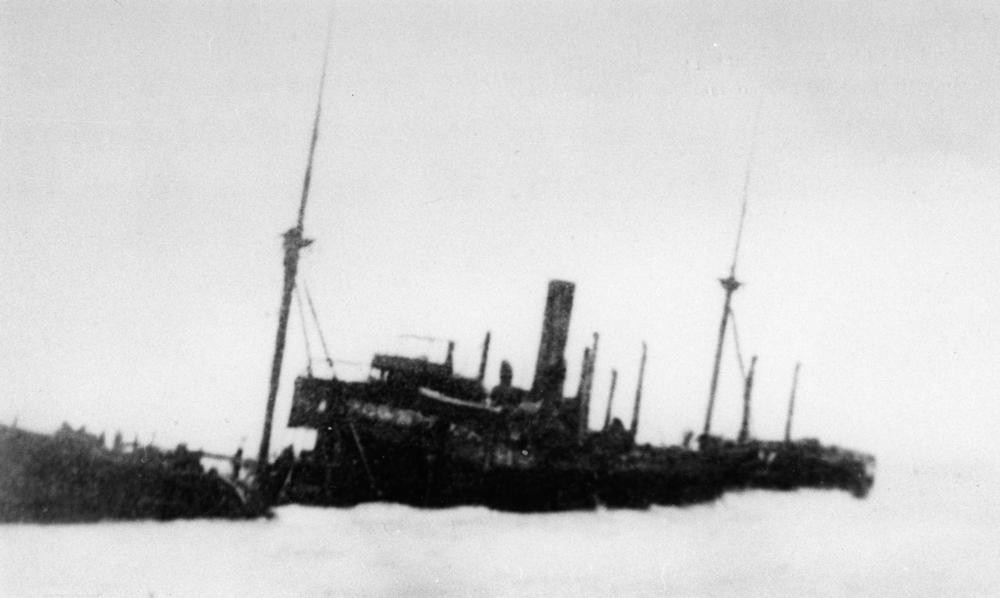 Waikouaiti (ship) 3926 gross tons. Stranded Dog Island near entrance to Bluff Harbour, New Zealand on 28 November 1939. Total loss. (Description supplied with photograph.).